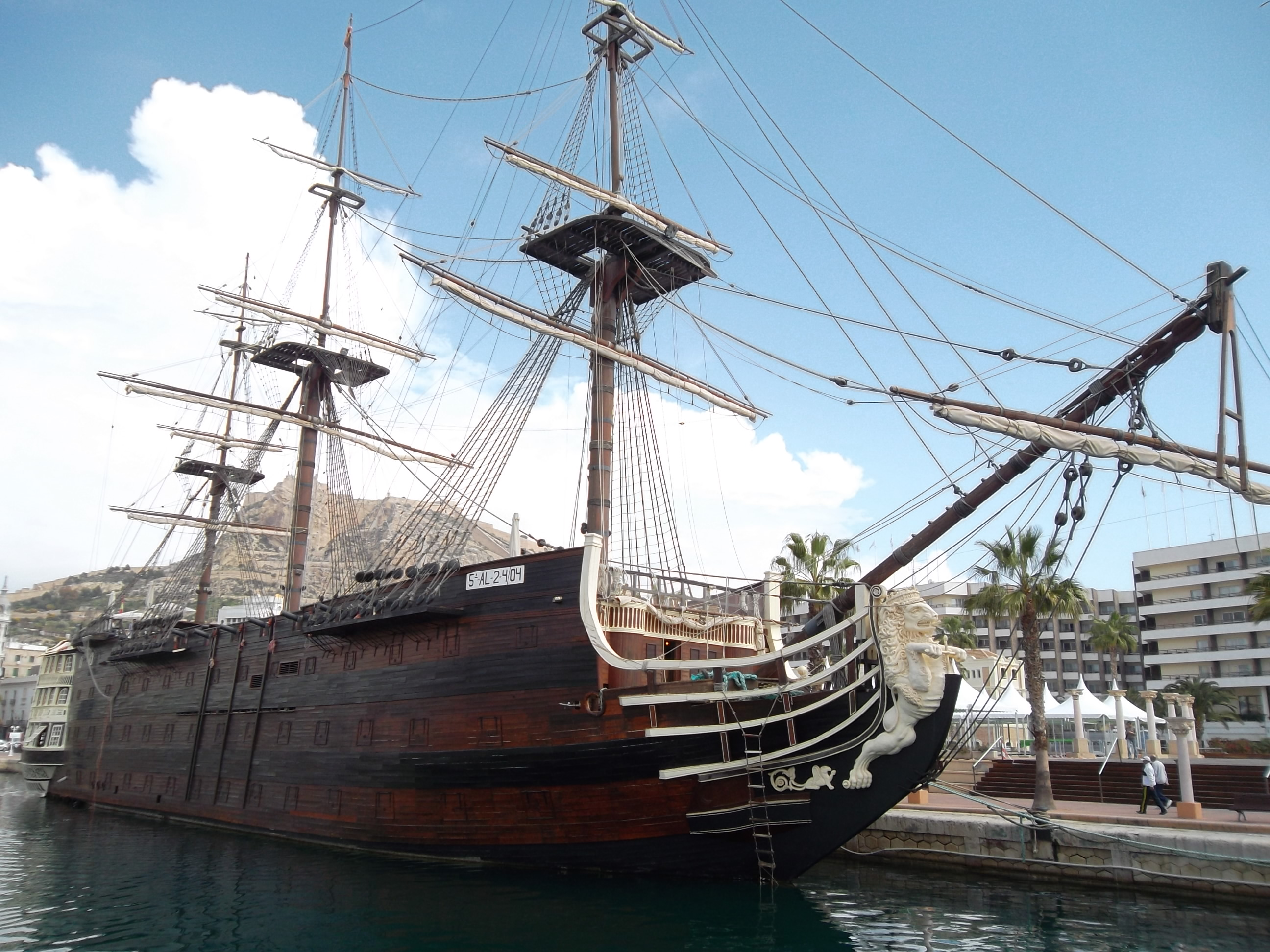 A reproduction of the Spanish galleon Santísima Trinidad, moored in the Port of Alicante since April 2011. This ship places a restaurant, a bar, a discotheque and a museum.